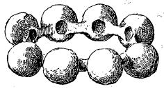 A Bronze bracelet found in a celtic grave in Lizio (56).